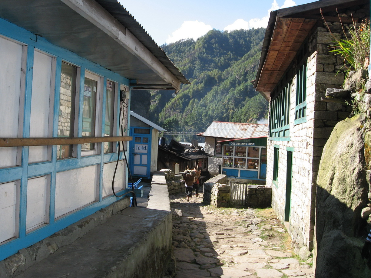 Main street in the village of Jorsale, Nepal